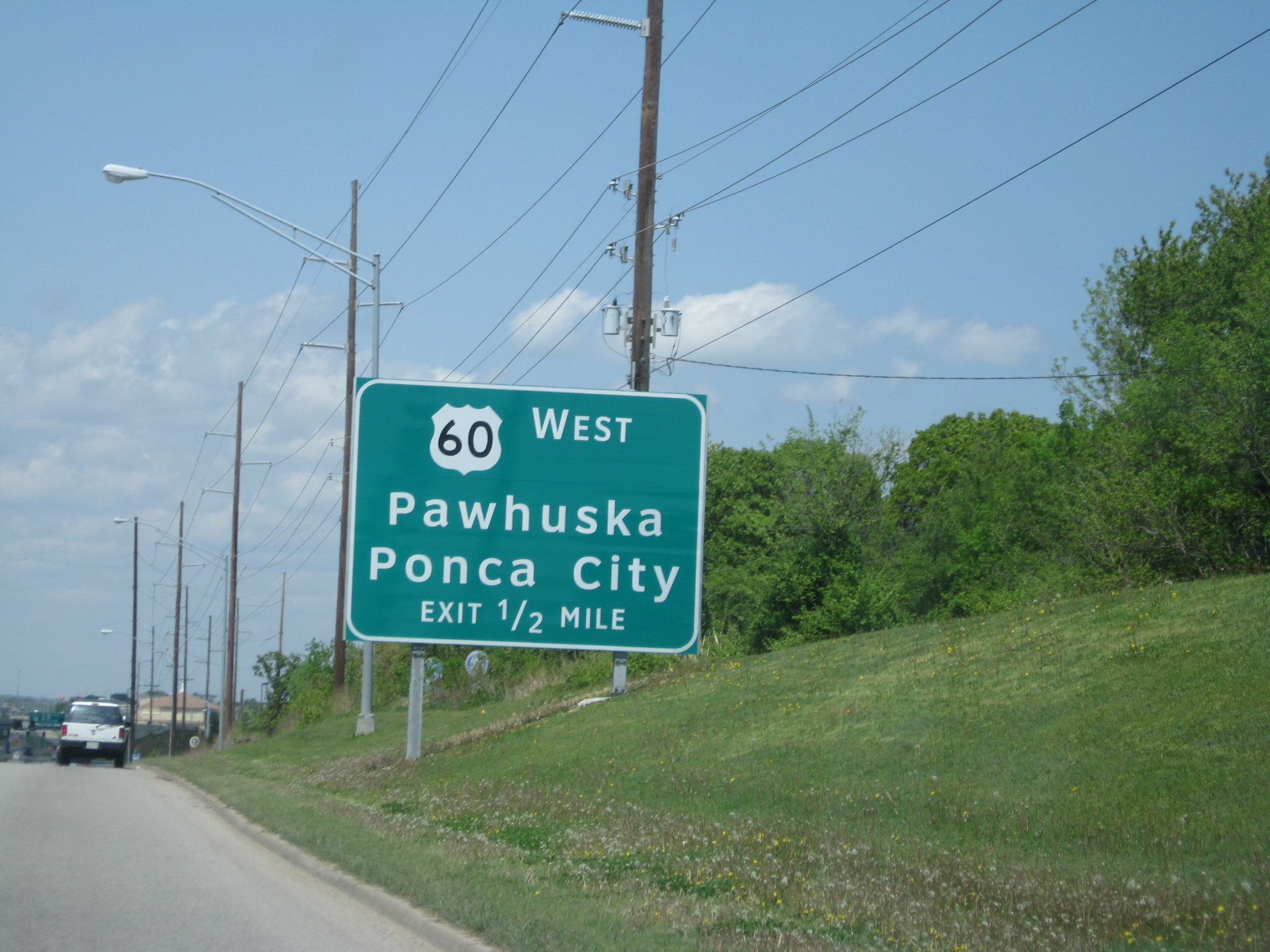 Signage for US 60 west on US 60/75 in Bartlesville, Oklahoma. The sign uses the Clearview font.